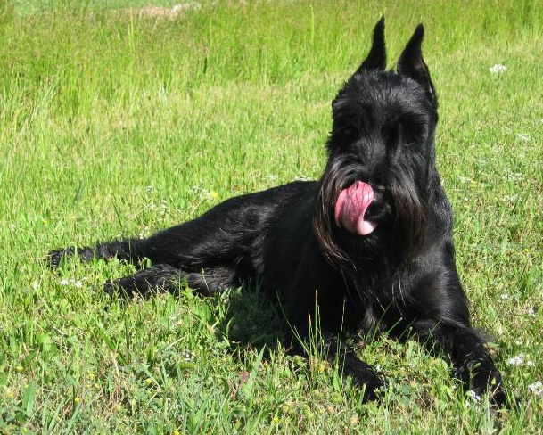 Black Standard Schnauzer female, cropped ears, docked tail, outside